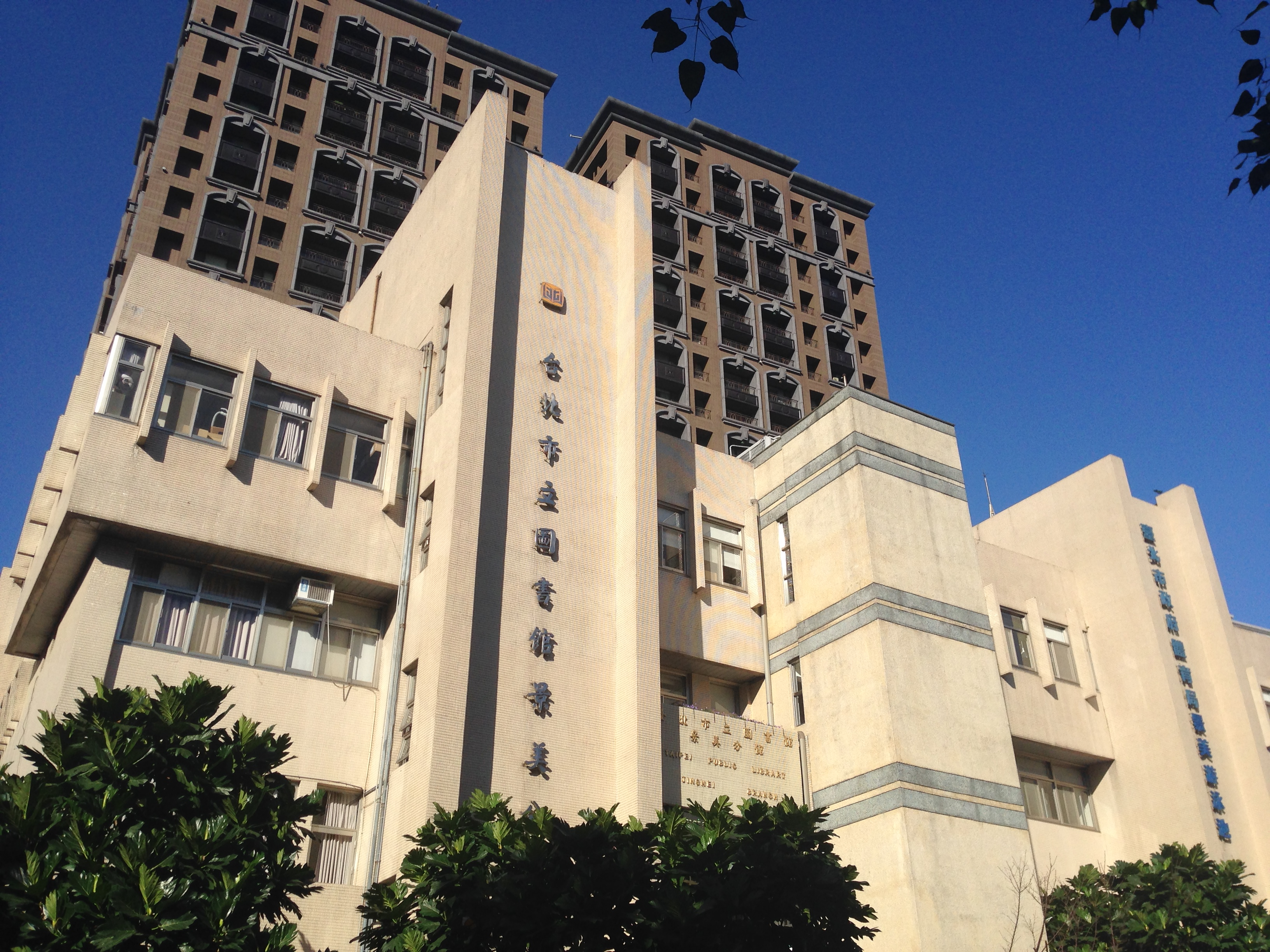 Taipei Public Library Jingmei Branch.